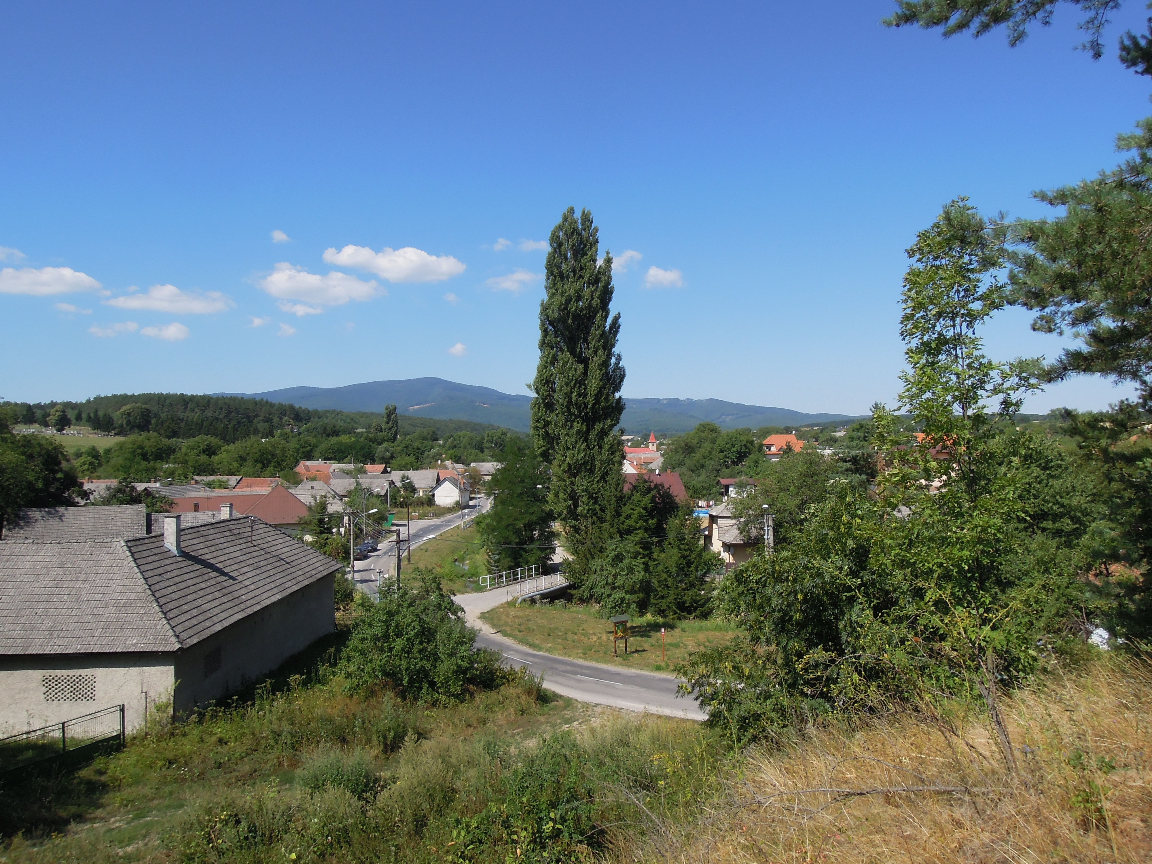 View of village Veľká Hradná, in Trenčín district, Slovakia.